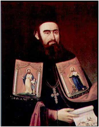 Georgije Popovic, painting from XVIII century Српски (ћирилица): Георгије Поповић, портрет насликан од непознатог аутора. Оригинал с краја 18. века је изгубљен, али сачувана је копија с почетка 19. века. Чува се у епископском двору у Темишвару